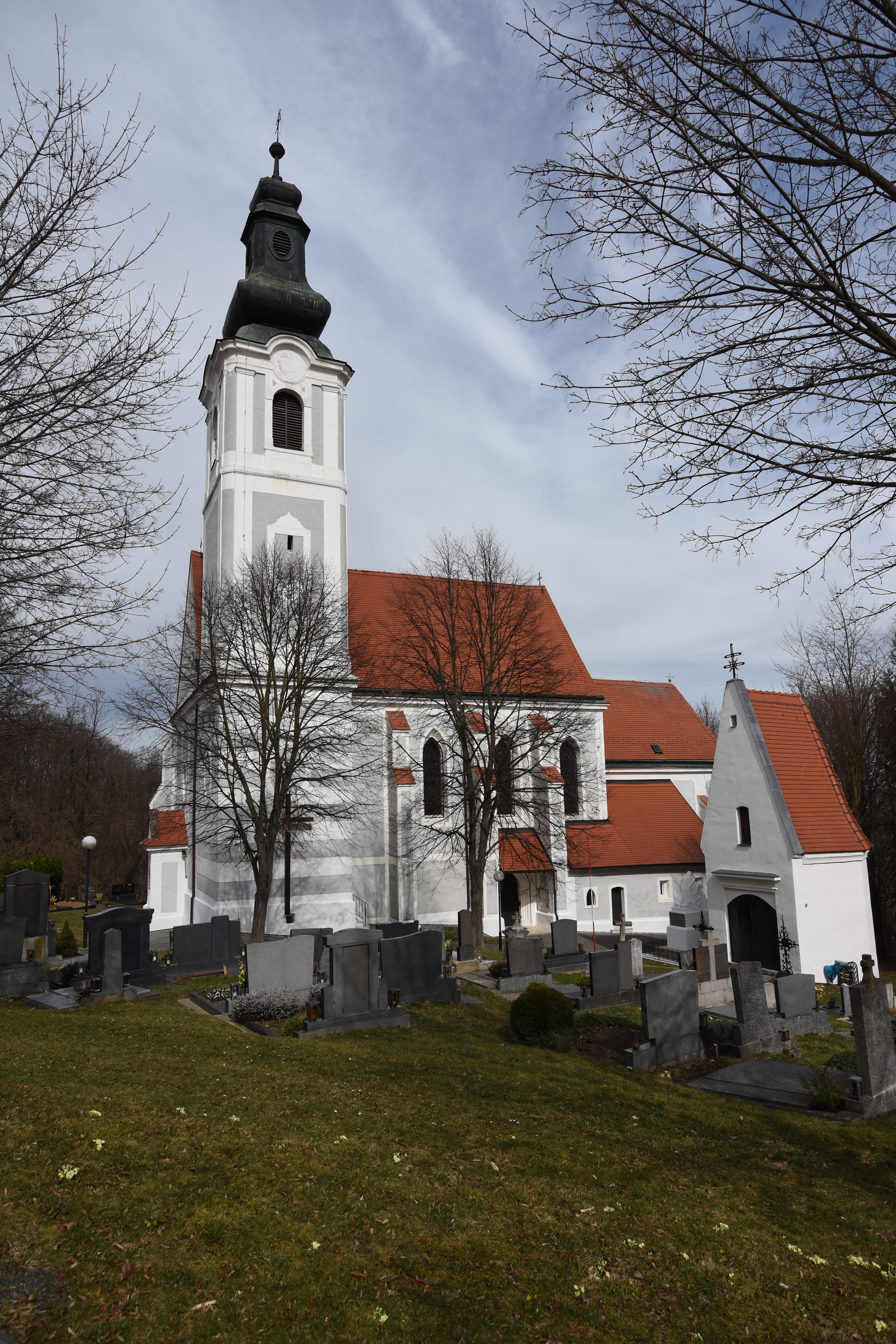 Church Gaas